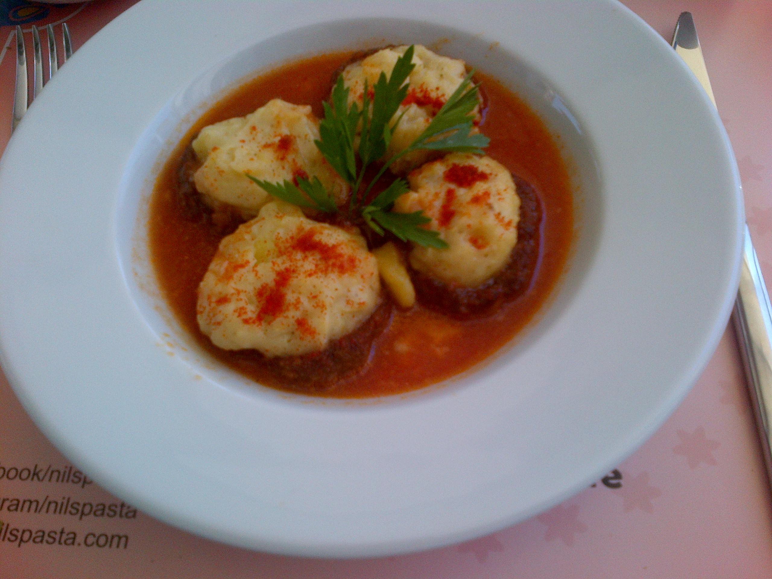 Hasanpaşa köfte is a stew with meatballs and mashed potatoes from the Turkish cuisine.